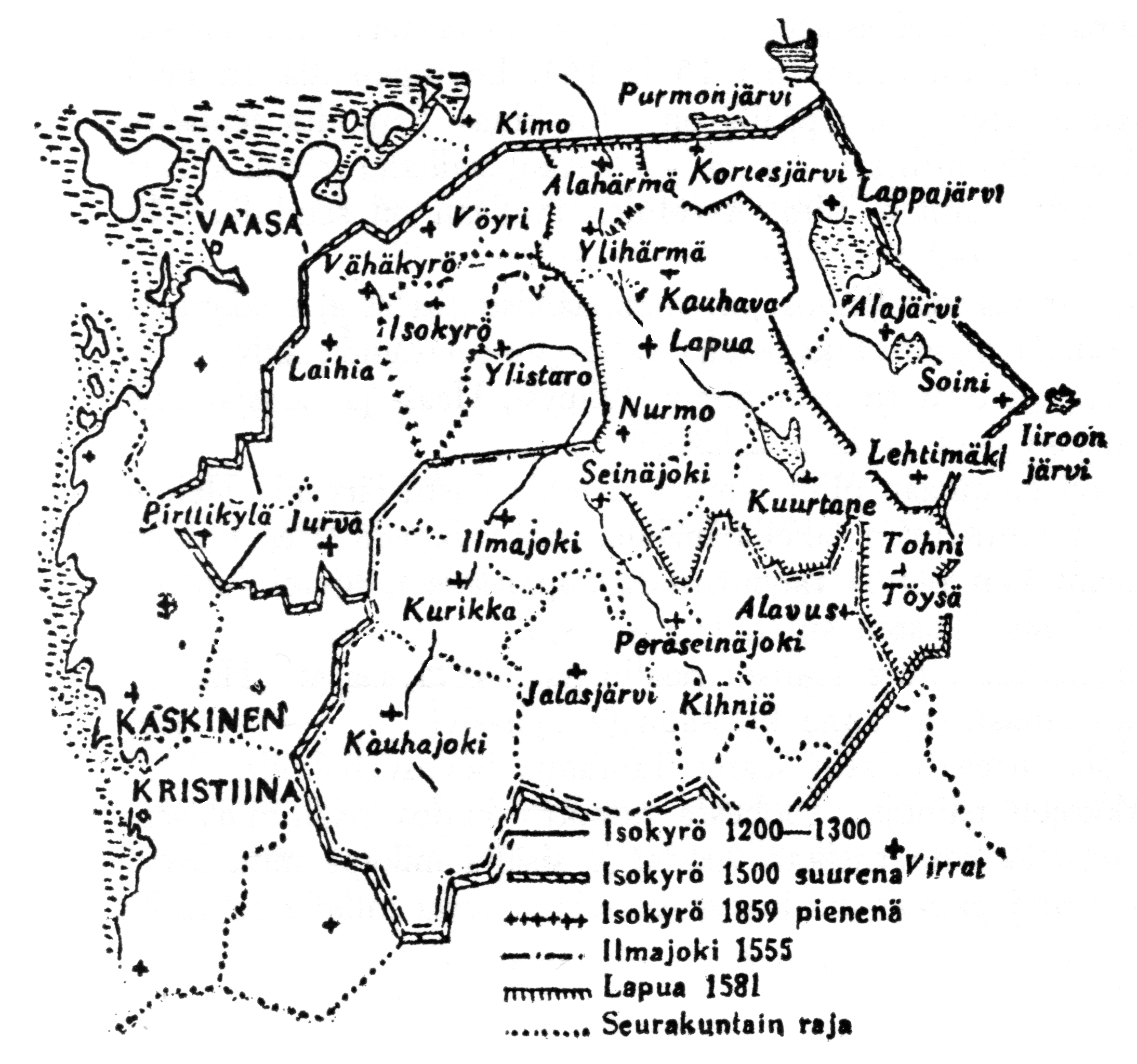 Map showing the parish of Kyrö in former times.